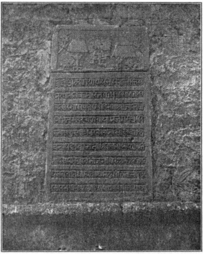 An invocation to Ganesha, Jwala Ji and Lord Shiva(?) from the Atashgah in Baku, Azerbaijan. The inscription is in Sanskrit written in the Devanagari script. Note the devotional (dotted, with slanted ends) Hindu swastika on the top.